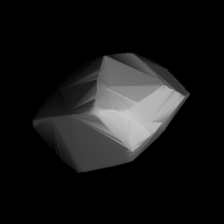 3D convex shape model of 343 Ostara, computed using light curve inversion techniques. J. Hanuš, J. Ďurech, M. Brož, B. D. Warner (June 2011). "A study of asteroid pole-latitude distribution based on an extended set of shape models derived by the lightcurve inversion method". Astronomy and Astrophysics 530: A134. ISSN 0004-6361. arXiv